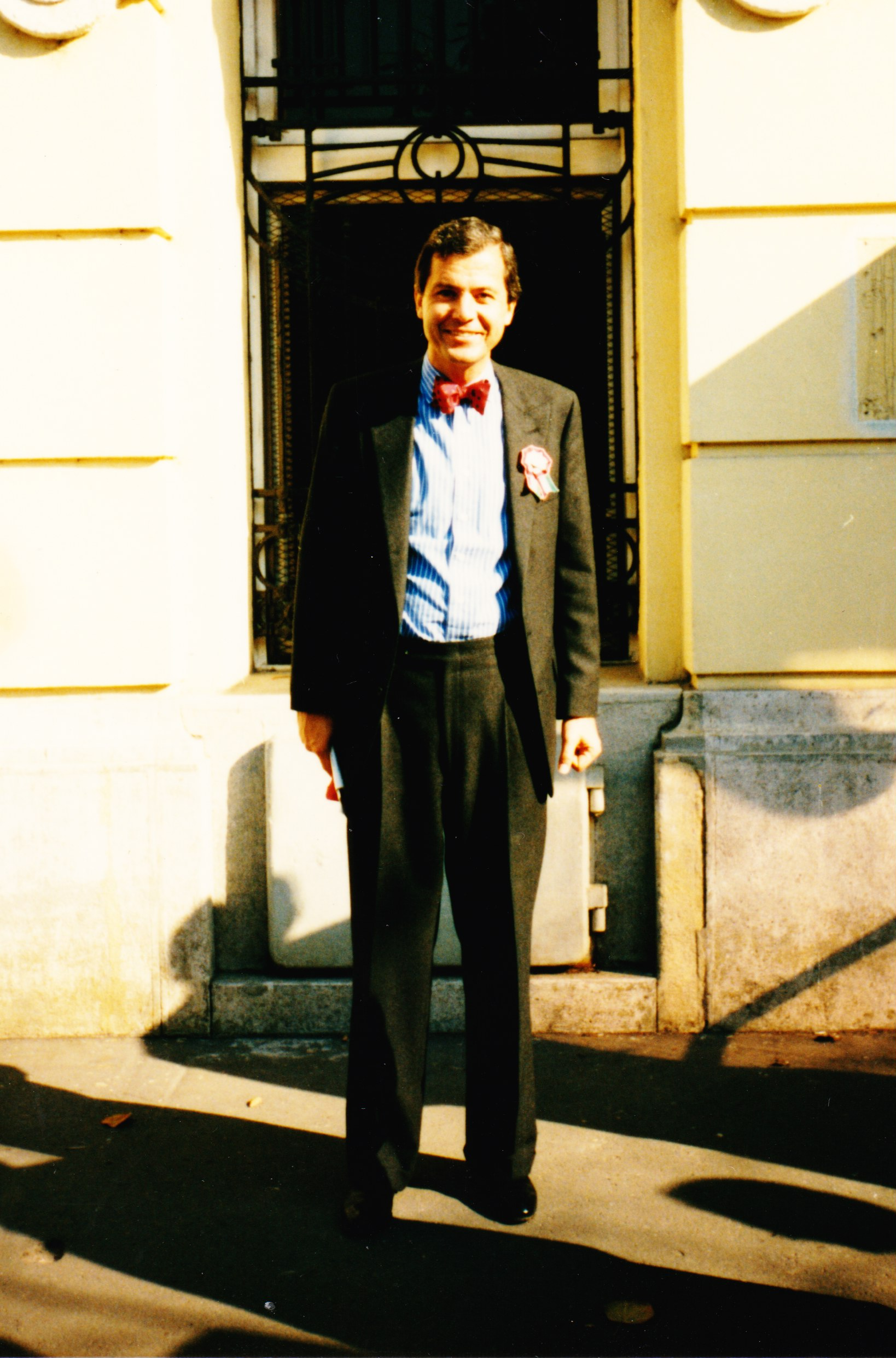 US ambassador to Hungary Mark Palmer in front of the US embassy in Budapest on 23rd October, 1989.